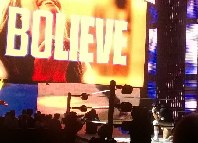 Bo Dallas at a Friday night SmackDown